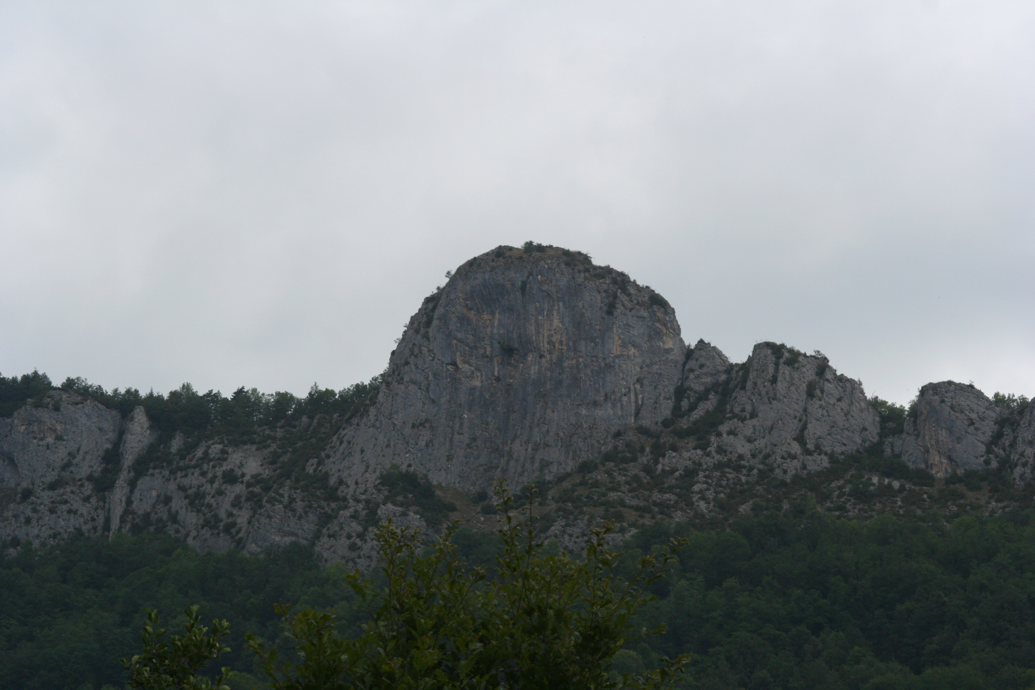 Place where was the old castel of Miramont, close to Rabat-les-trois-seigneurs